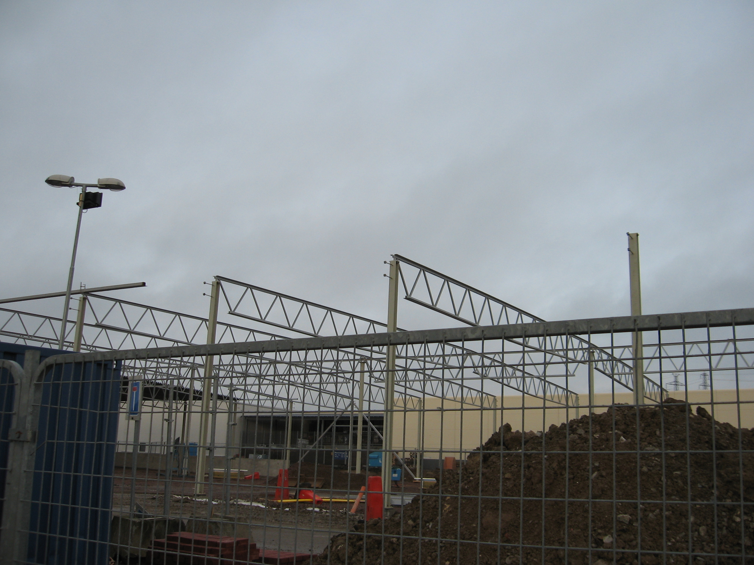 Roof trusses manufactured by SWL